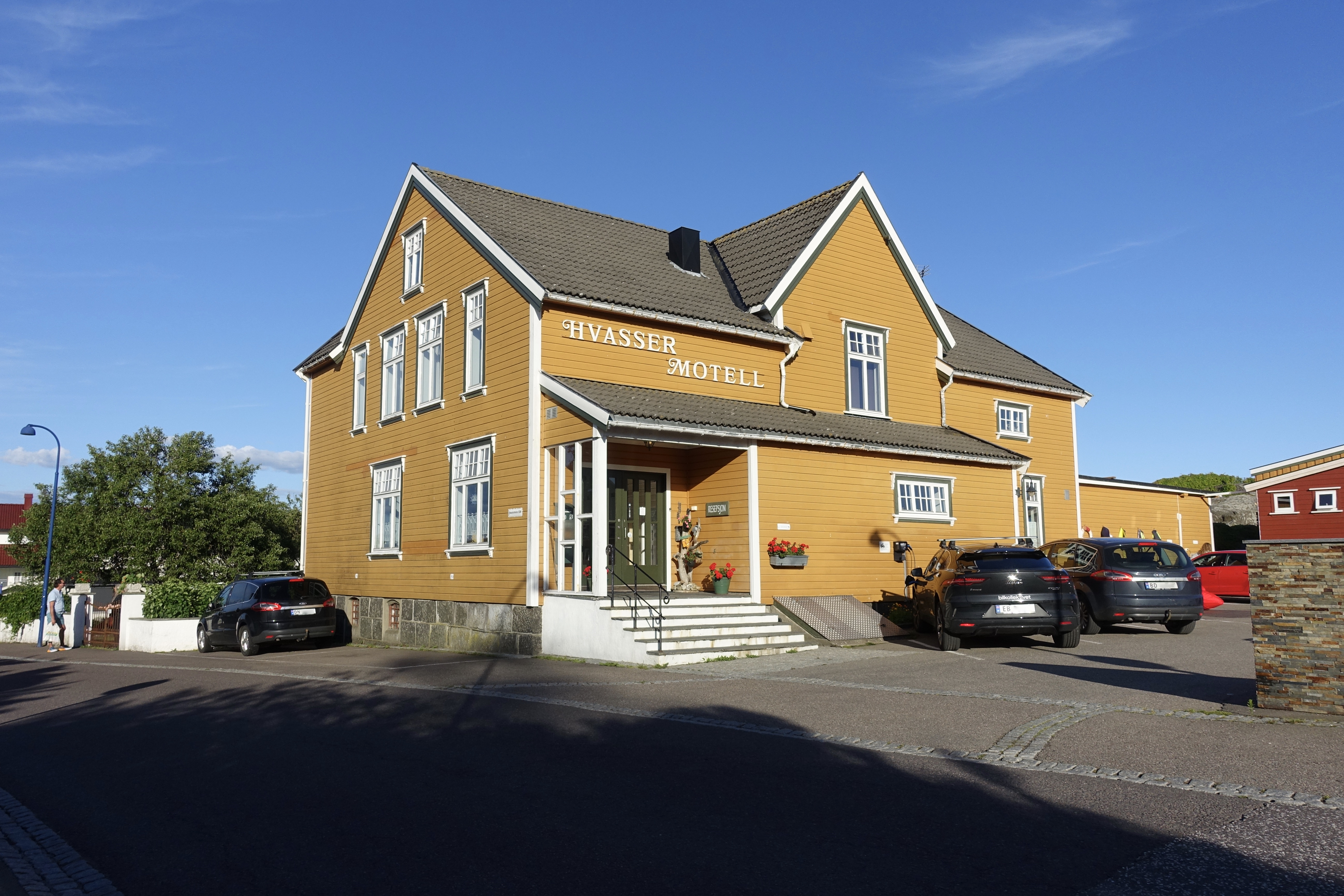 Hvasser Motel on the island of Hvasser in Færder municipality, Norway. Photo taken on an early summer evening in July 2020. Wooden building, parked cars, etc.